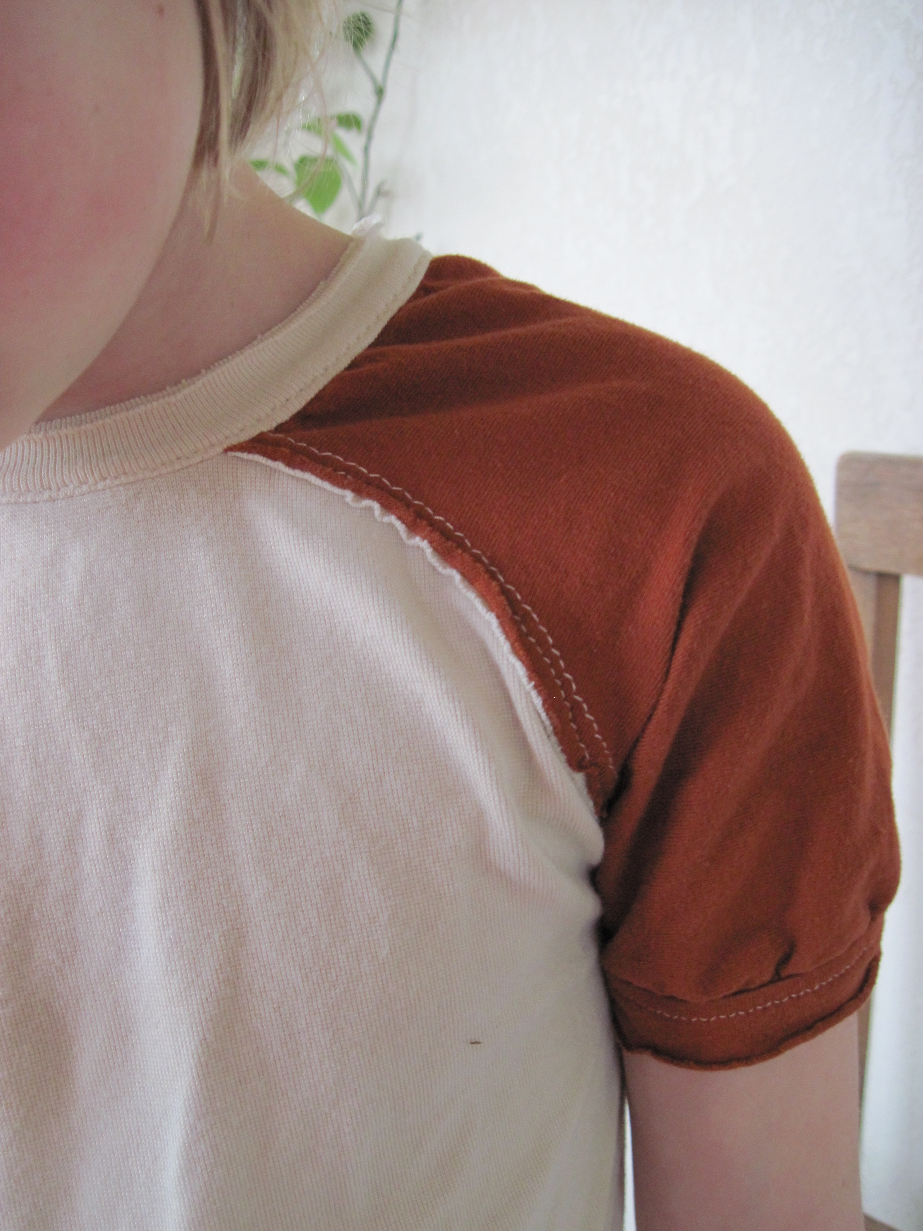 A child wearing a raglan sleeved shirt.